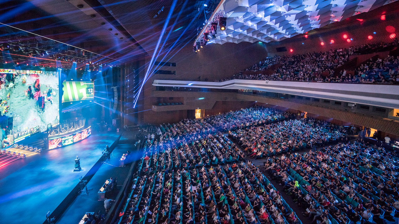 OG vs Virtus.Pro in the Dota 2 Kiev Major 2017. Taken during game 4 of the grand finals. Taken in the National Palace of Arts "Ukraina"